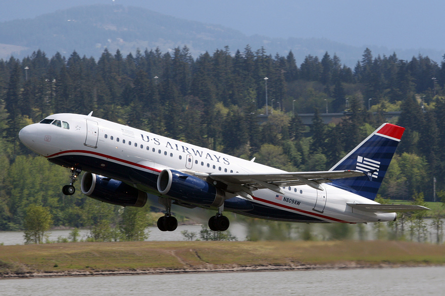 US Airways Airbus A319